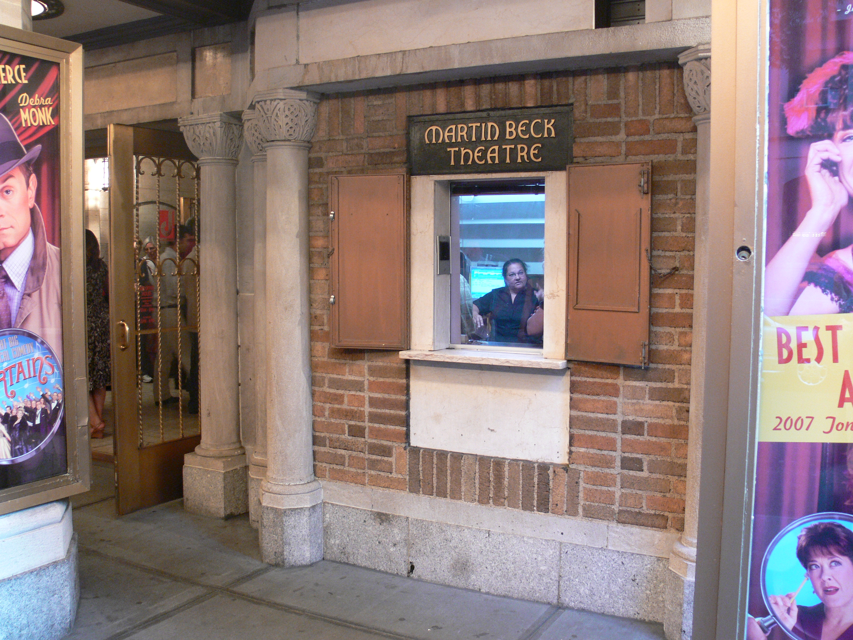 Al Hirschfeld Theatre, ticket box (still labelled "Martin Beck Theatre") 302 West 45th Street, Manhattan, New York City